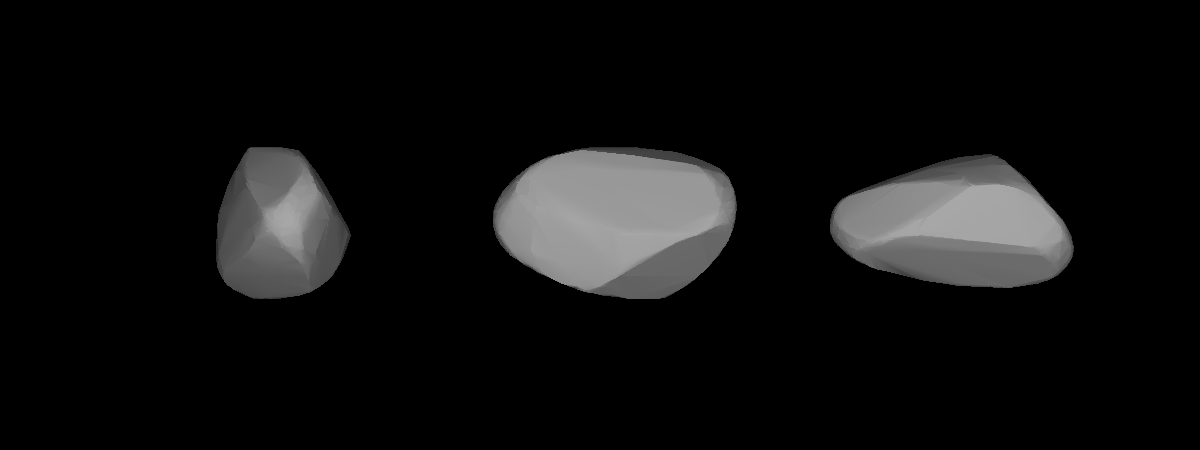 A three-dimensional model of 1249 Rutherfordia that was computed using light curve inversion techniques.